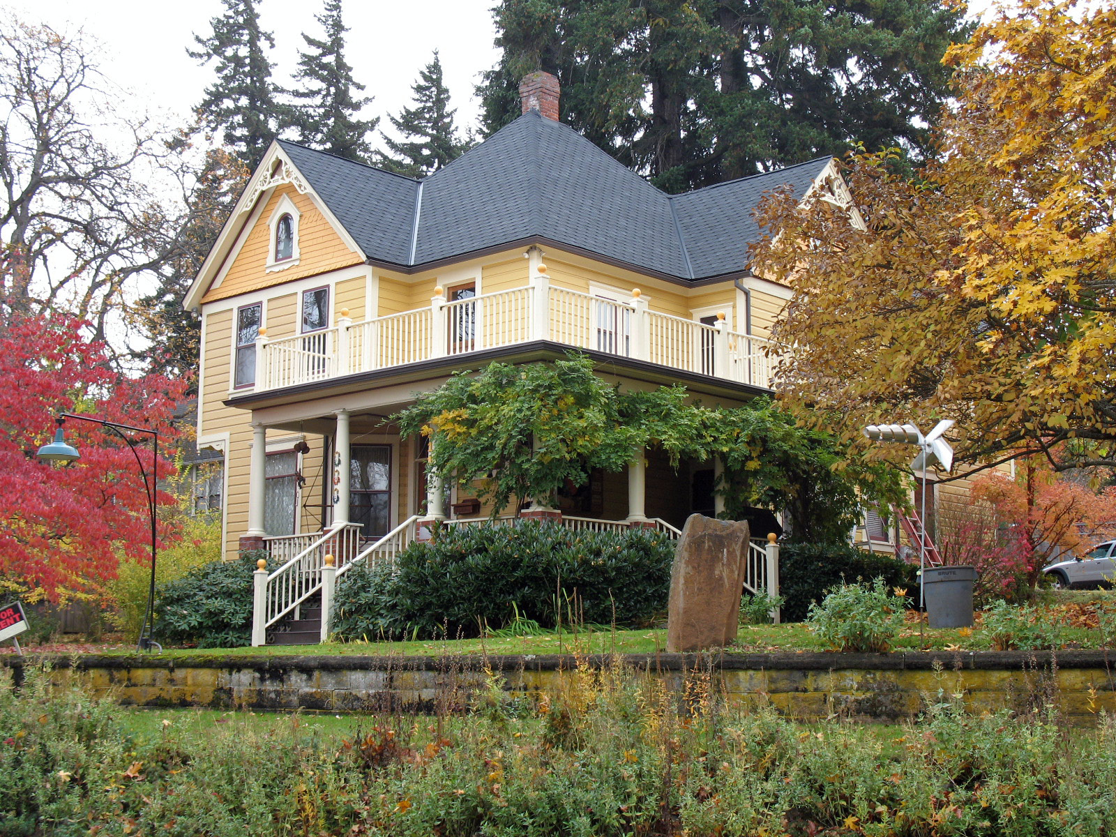 National Register of Historic Places listings in Hood River County, Oregon. Simpson Copple House, 922 Montello Ave, Hood River, OR. Photographed October 28, 2009 from the north side of Montello Ave. near the intersection of 10th St.